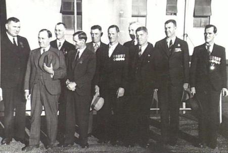 AWM caption: A group portrait of Victoria Cross recipients who were invited to Sydney by the United Licensed Victuallers Association (ULVA) to march as a group in the 1938 Sydney Anzac Day march. This gesture by the ULVA was part of the Australian sesquicentennial (150 years) celebrations. The photograph was taken on the roof of the ULVA headquarters at 12 O'Connell Street, Sydney. Left to right: J. W. A. Jackson VC W. D. Joynt VC J. Hamilton VC W. M. Currey VC T. Caldwell VC (Royal Scots Fusiliers) P. C. Statton VC MM J. J. Dwyer VC J. Carroll VC E. T. Towner VC MC T. L. Axford VC MM